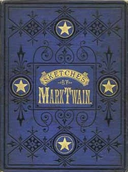 Book cover for 1st edition of Sketches New and Old (Q3058638)